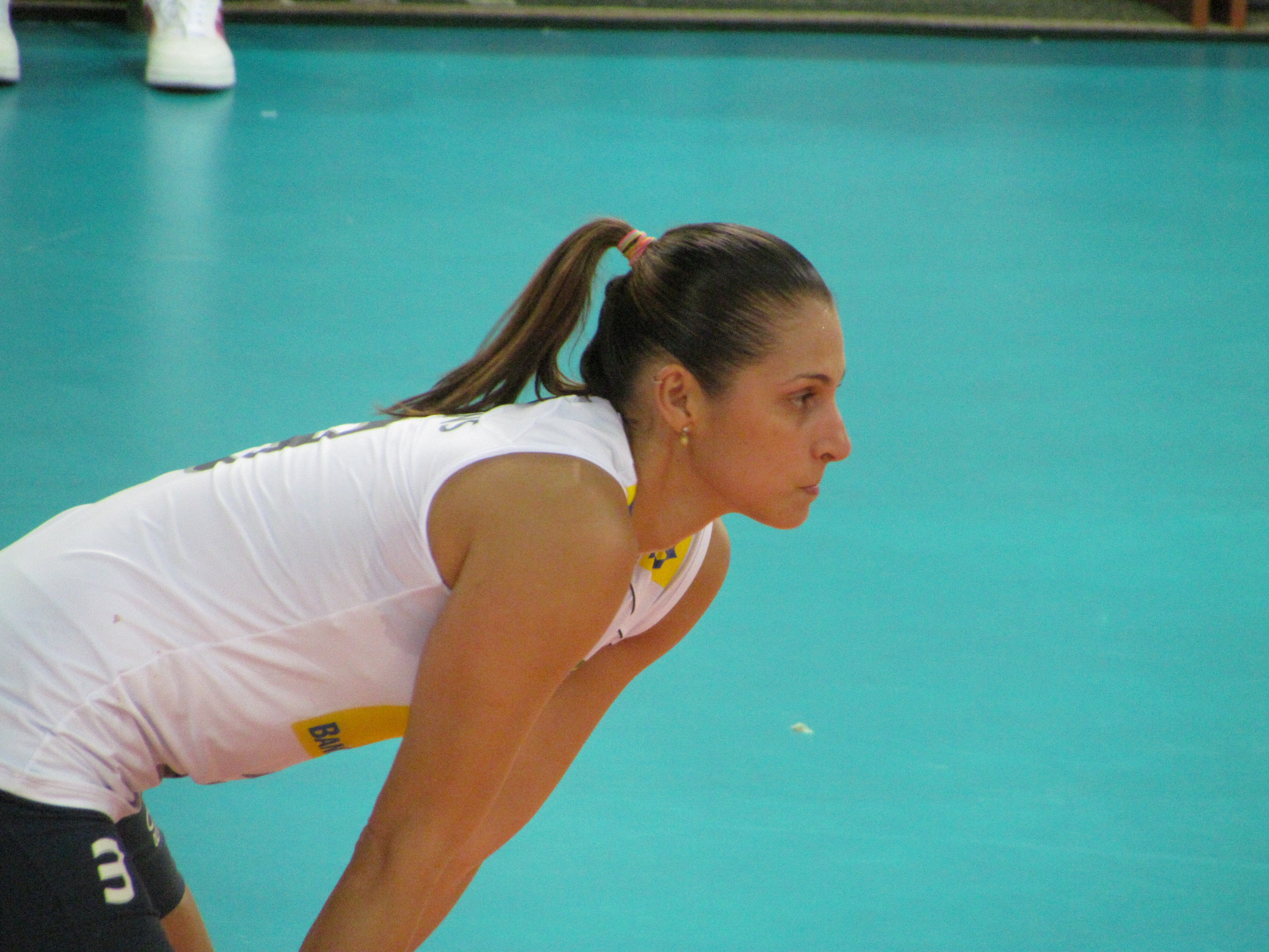 Danielle Rodrigues Lins